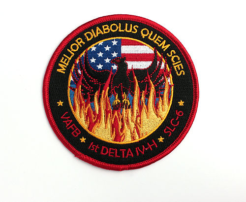 Patch related to he NROL-49 launch, with Latin motto "Better the devil that you know..."